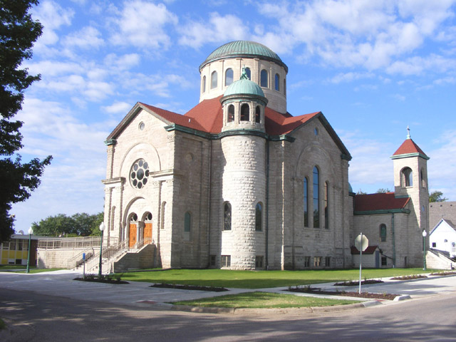 All Saints Catholic Church is one of a very few Byzantine-style churches in the midwest. The stones are hand-carved limestone. In 1995, a lone arsonist, consumed by hate for the Catholic faith, set fire to the historic building, nearly destroying it. In the months that followed, the parish council elected to build a new structure outside the city. The rare Byzantine structure is one of very few found in the Midwest. Designed by Boston architects Maginniss and Walsh, the church was loosely modeled after St. Marks in Venice, Italy. The magnificent interior was created in the Italian Baroque tradition. Four hand-painted frescoes adorned the arched ceilings. The altars were of Italian marble and the windows were ornate stained glass, created in the renowned Meyer Studios in Munich, Germany. Hand carved limestone blocks formed the walls. The copper dome reached 90 feet into the air, a beacon calling travelers off Interstate 80 for years. The church served as a gathering place as well as a tourist attraction for the small rural community. Voted "Most Beautiful Church in Iowa" by Des Moines Register readers, it truly was an exquisite place for worship. Architects and architectural engineers who surveyed the structure after the fire agreed that the walls of the structure remained sound and that the interior could be restored. Project Restore is dedicated to making that dream a reality.